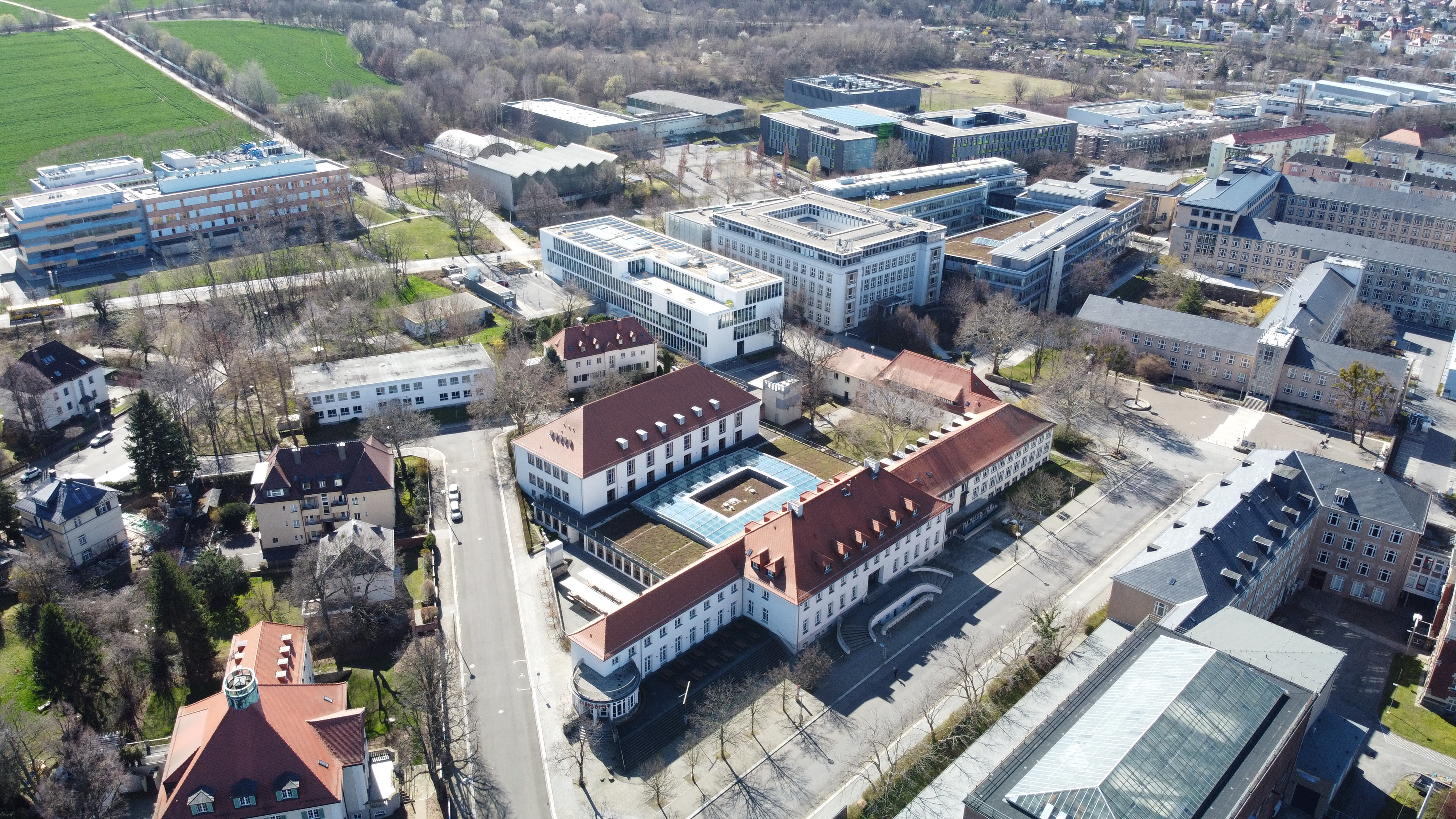 Aerial shot of the old cafeteria of the Dresden University of Technology with the Hermann-Krone-Bau and Andreas-Pfitzmann-Bau in the background.